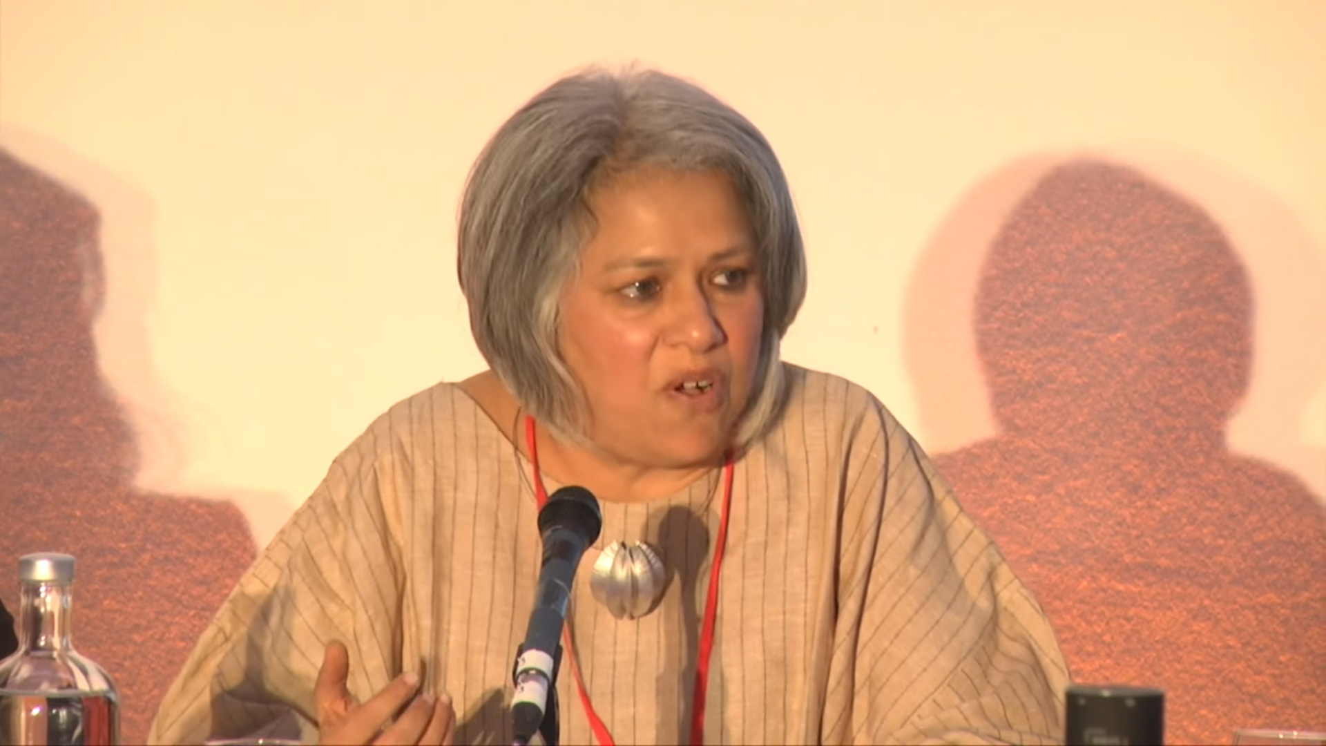 Gita Sahgal on Islam's Non-Believers Panel Discussion at the International Conference on Free Expression and Conscience, London, 22-24 July 2017 (#IWant2BFree).